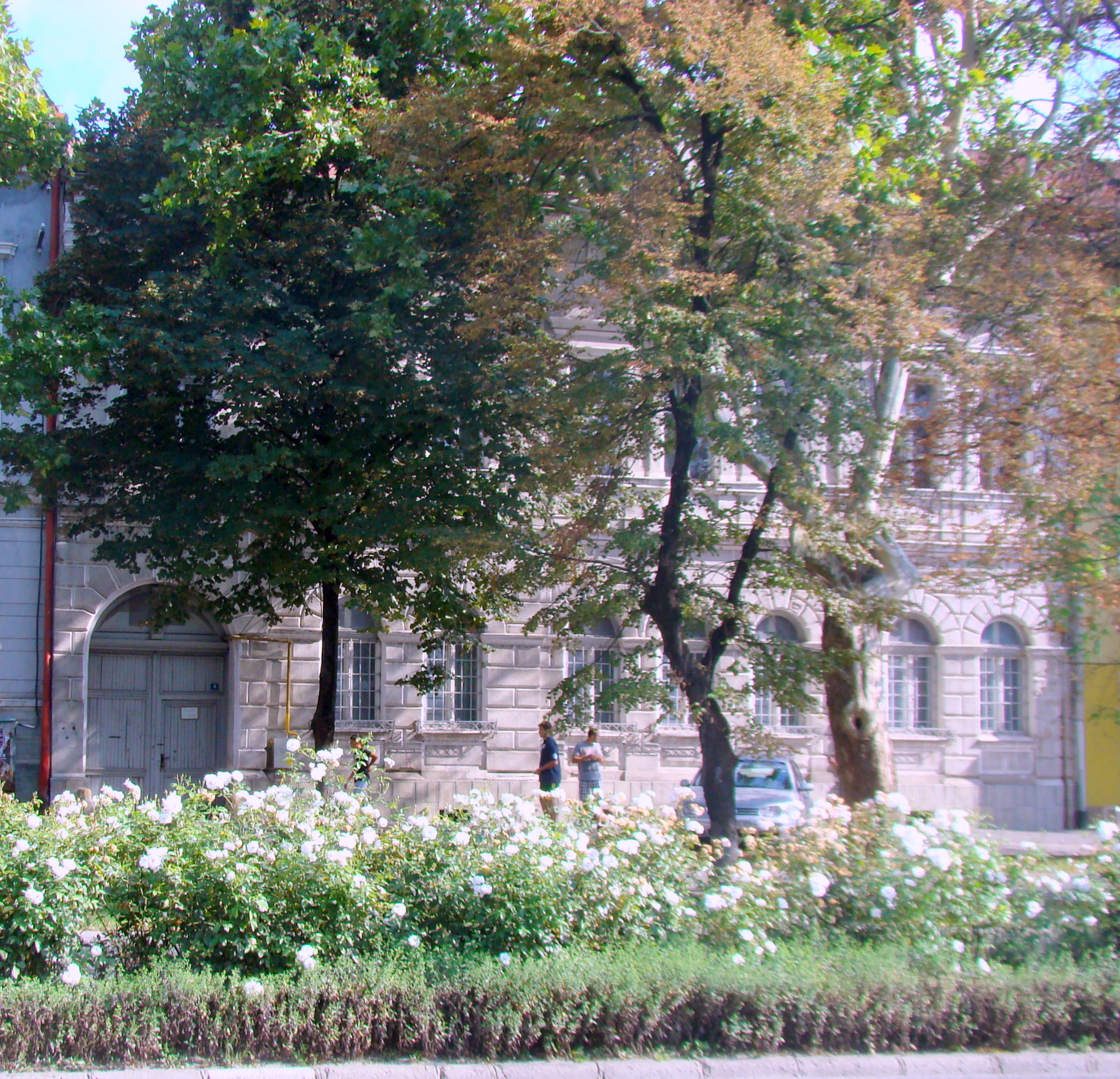 House, historic monument, in Bistrița, Bd. Independenței 9